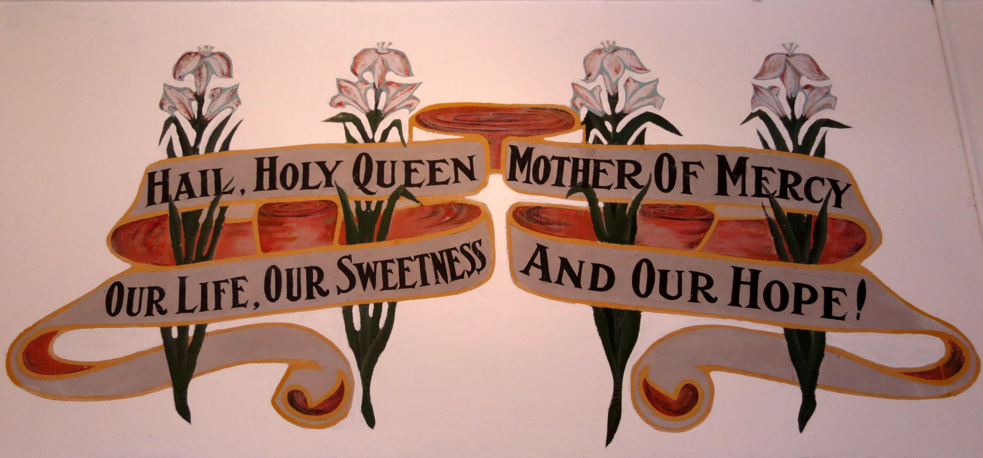 Sorrowful Mother Shrine Chapel (Bellevue, Ohio) - narthex mural, Hail Holy Queen